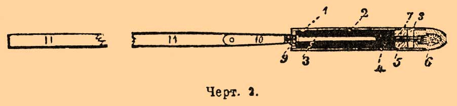 Illustration from Brockhaus and Efron Encyclopedic Dictionary (1890—1907)